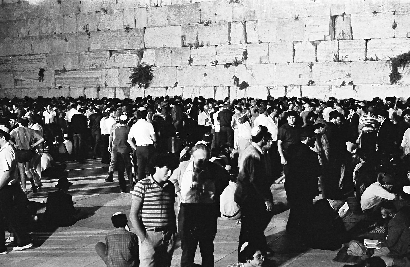 Jerusalem, 9 av kotel, Religion in Israel